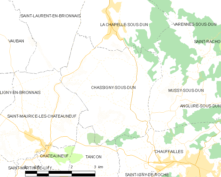 Map of French municipality